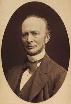 Niels Frederik Vilhelm Hegel (1817-1887), Danish bookseller and publisher